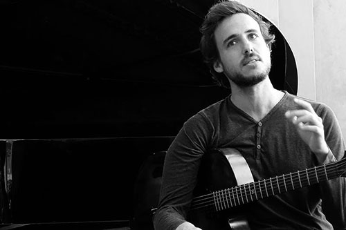 Gilad Hekselman. Masterclass at the Royal Acedemy of Music, Aarhus Denmark